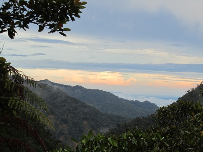 View of Amazon as competitors descend from Cloud Forest to the Amazon basin